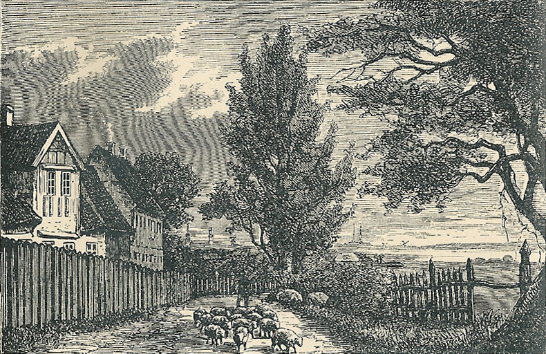 Resten af den gamle landevej forbi Bakkehuset, af hvilken Kamma Rahbek dannede sin have. Efter et, senere, maleri af H. Buntzen.